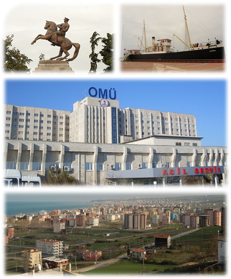 Collage of Samsun.